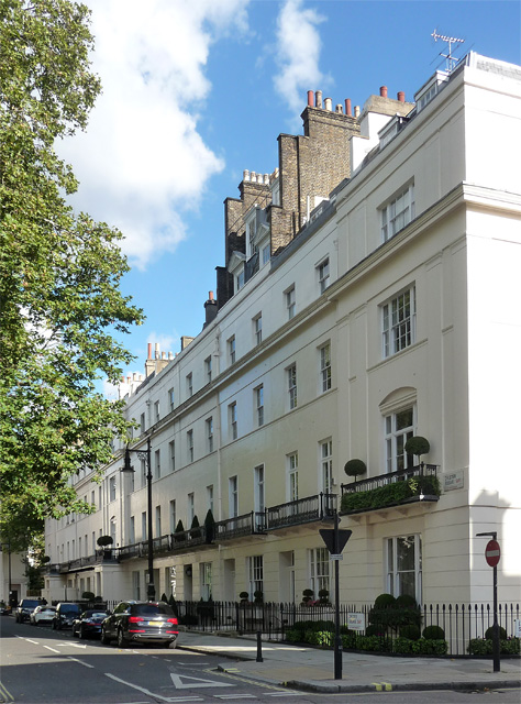 66-76 Chester Square